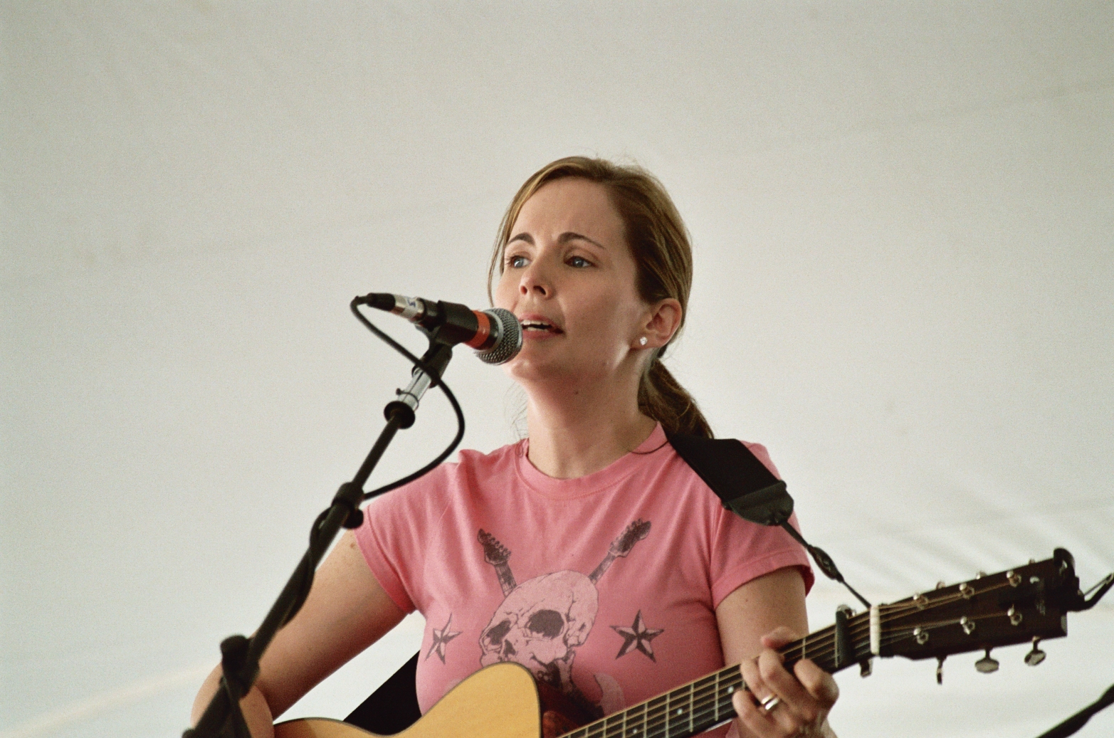 Lori McKenna performs solo on the Custom House Stage of New Bedford Summerfest 2006.